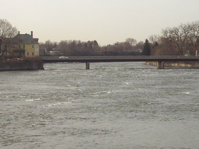 Looking south down the South Branch of the Mohawk River between Simmons Island and Van Schaick Island.